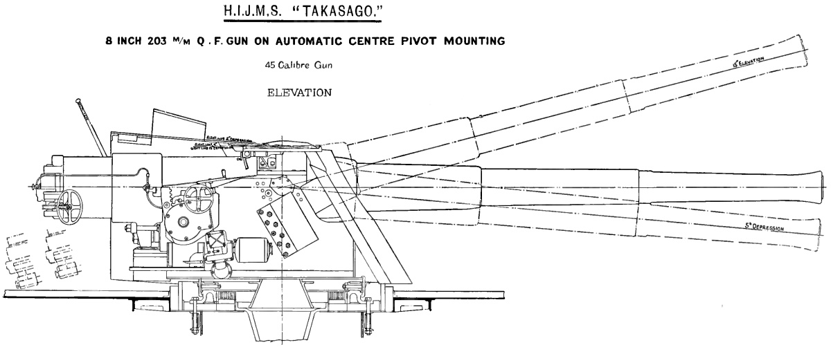 Right elevation diagram of Elswick Ordnance 8-inch 45 calibre gun on centre pivot mounting for Japanese cruiser Takasago commissioned 1898. Electric and auxiliary hand training gear is provided. Elevation is by hand, made possible by gun being balanced on knife-edges supported on springs, allowing 2° per second elevation. Gun can be trained manually through 60° in 25 seconds, and through 180° in 30 seconds using electric gear. The shield is 4½ inches thick and is supported on elastic stays to absorb shock.